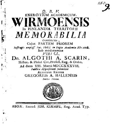 The title page of the academic dissertation Wirmoënsis in Finlandia territorii memorabilia made by Finnish historian, Gregorius A. Hallenius in 1738